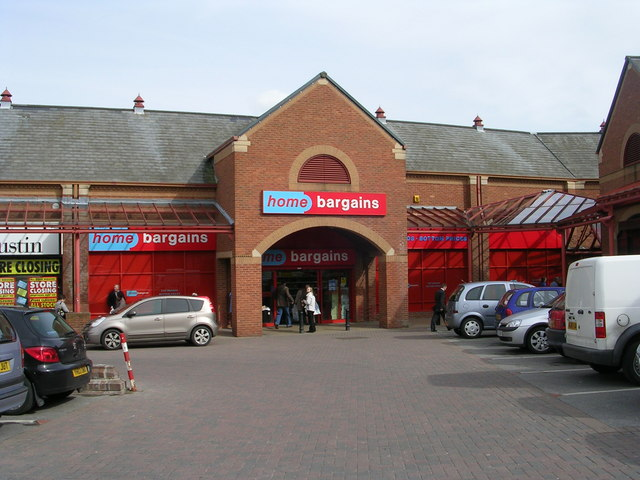 home bargains - Hope Street